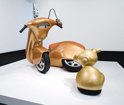 A sculpture by Patricia Piccinini titled 'Nest'.